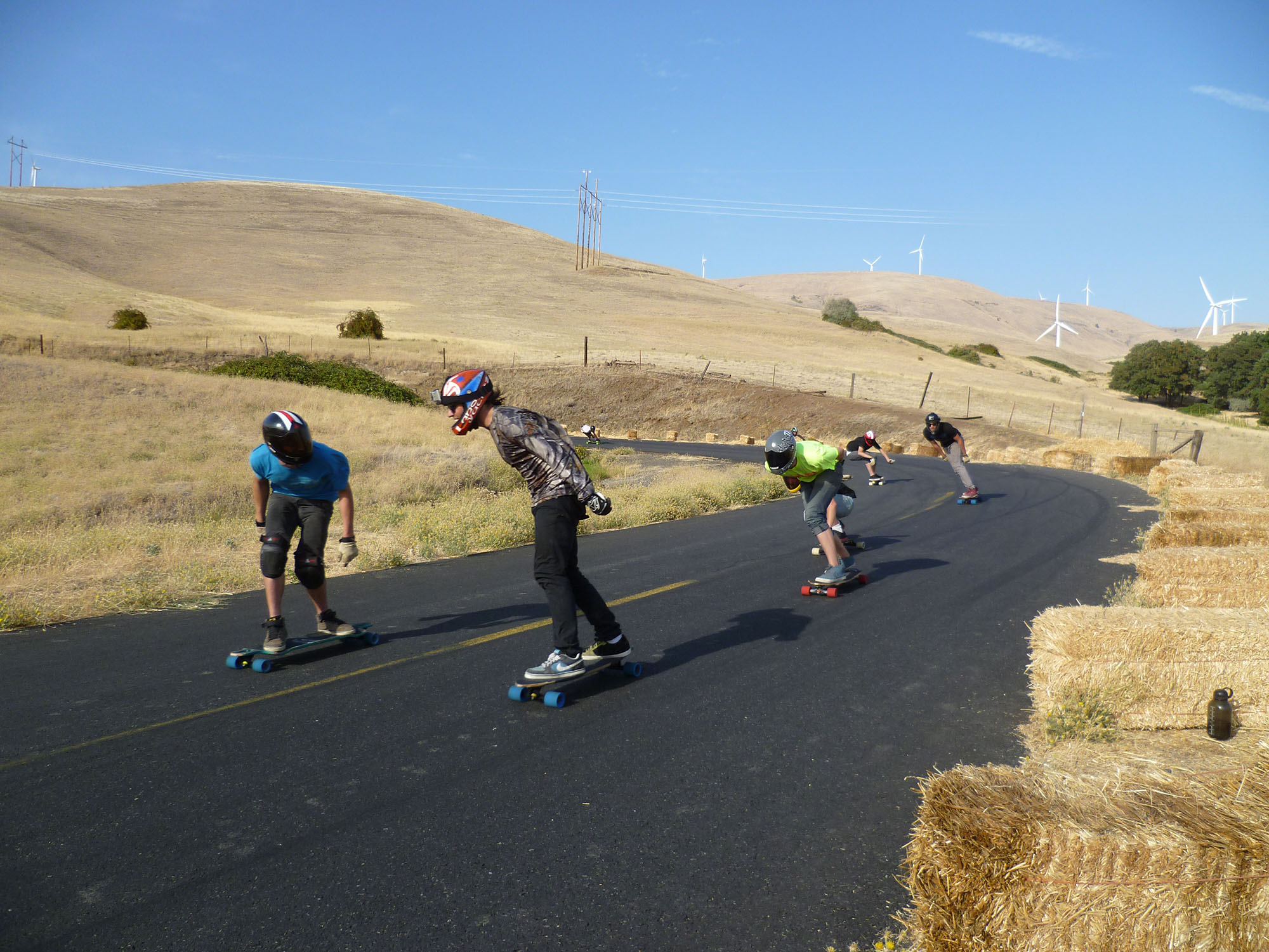 Maryhill Fall Freeride 2012- cowzers longboarding